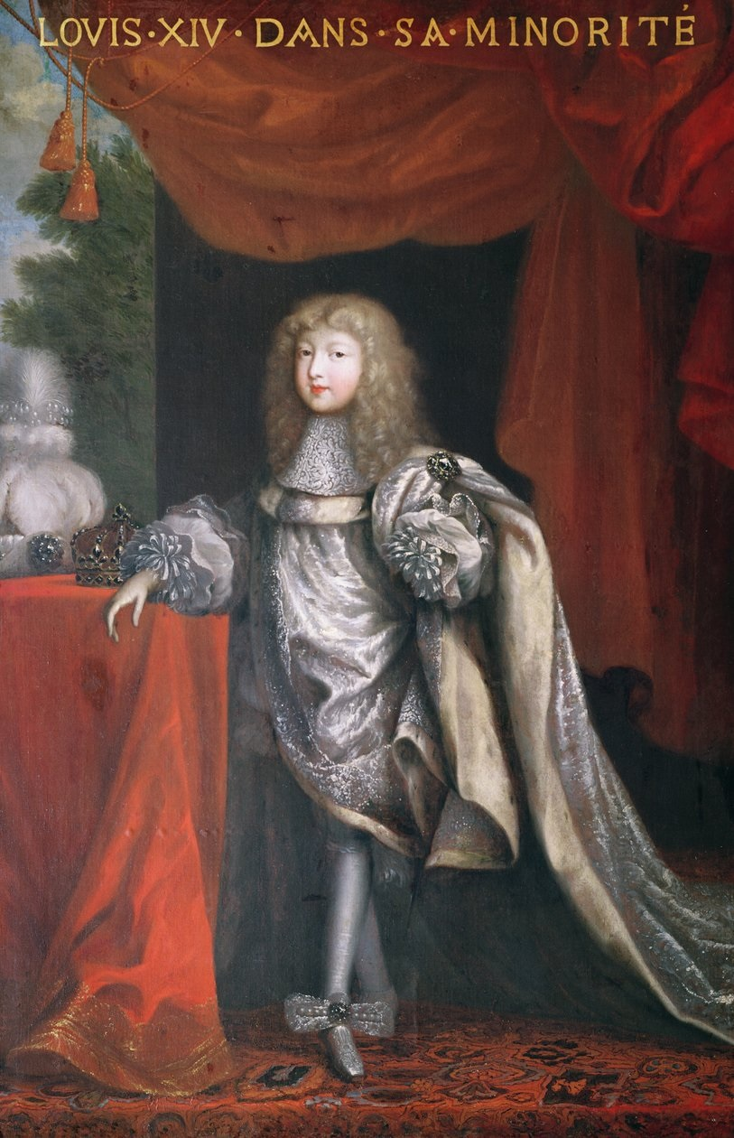 Louis de France, Louis XIV's son